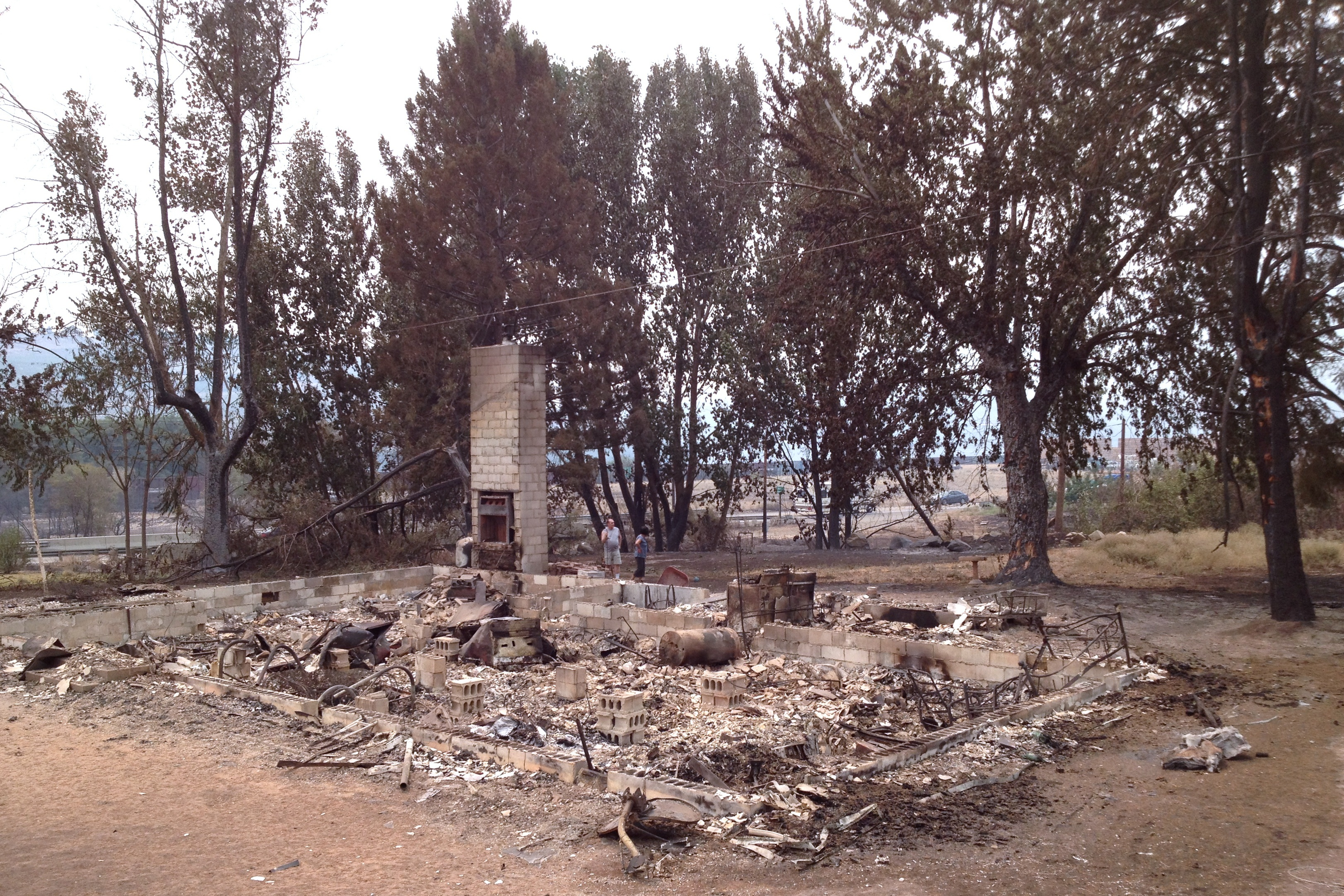 A house near Pateros, WA destroyed by the Carlton Complex Fire in 2014